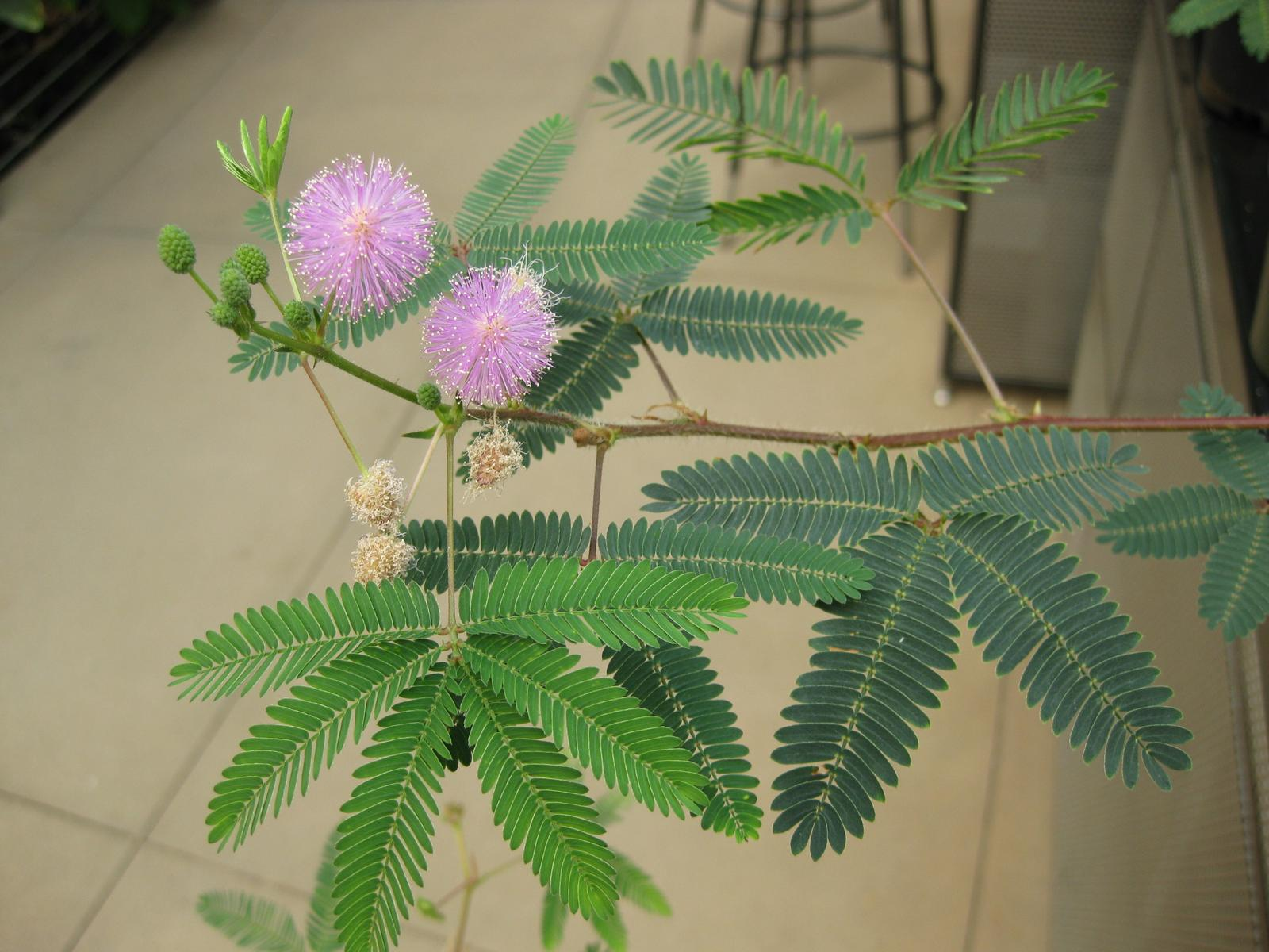 Photographed at Huntington Gardens (Los Angeles) in September